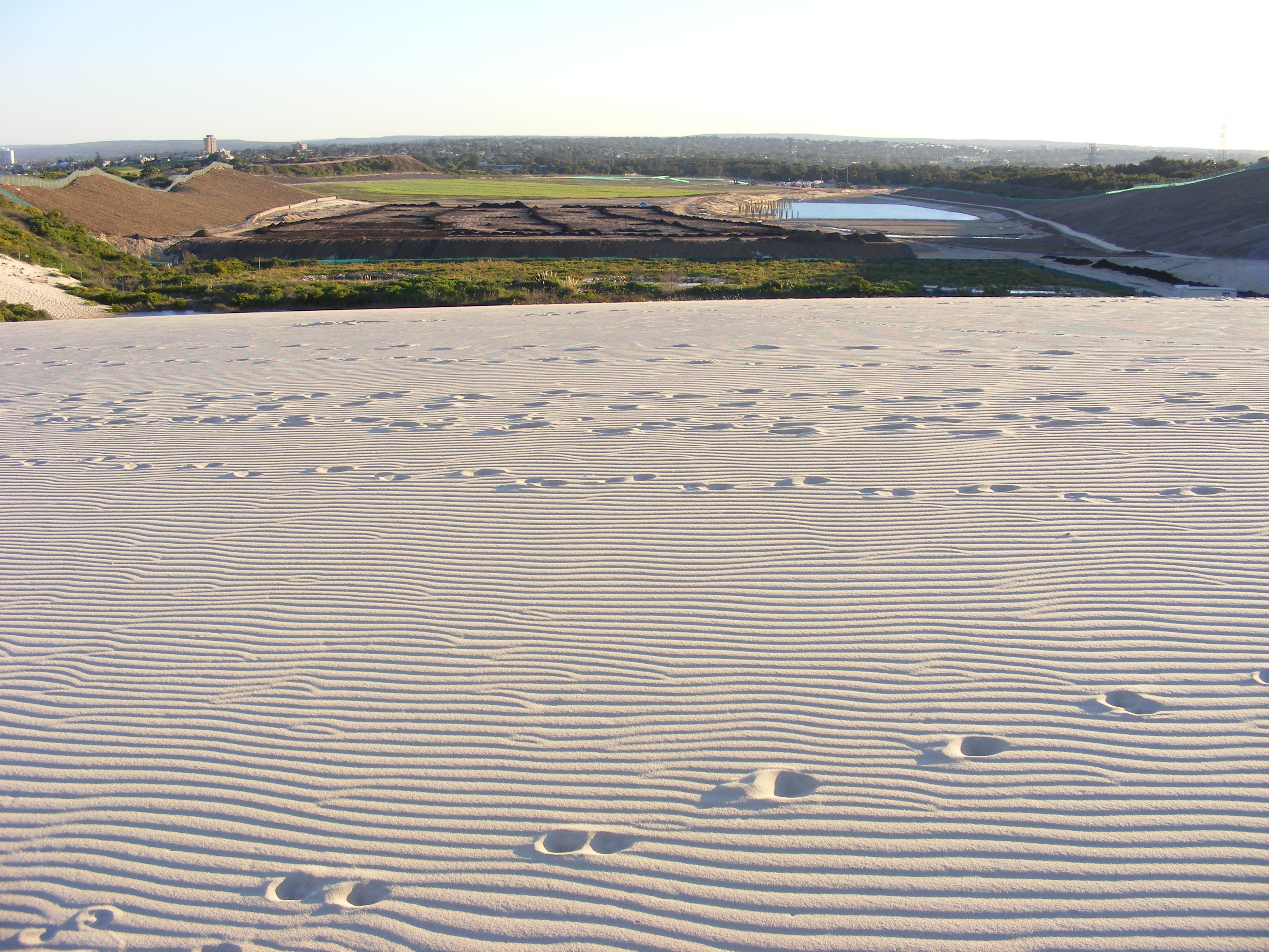 Wanda Sand Hills